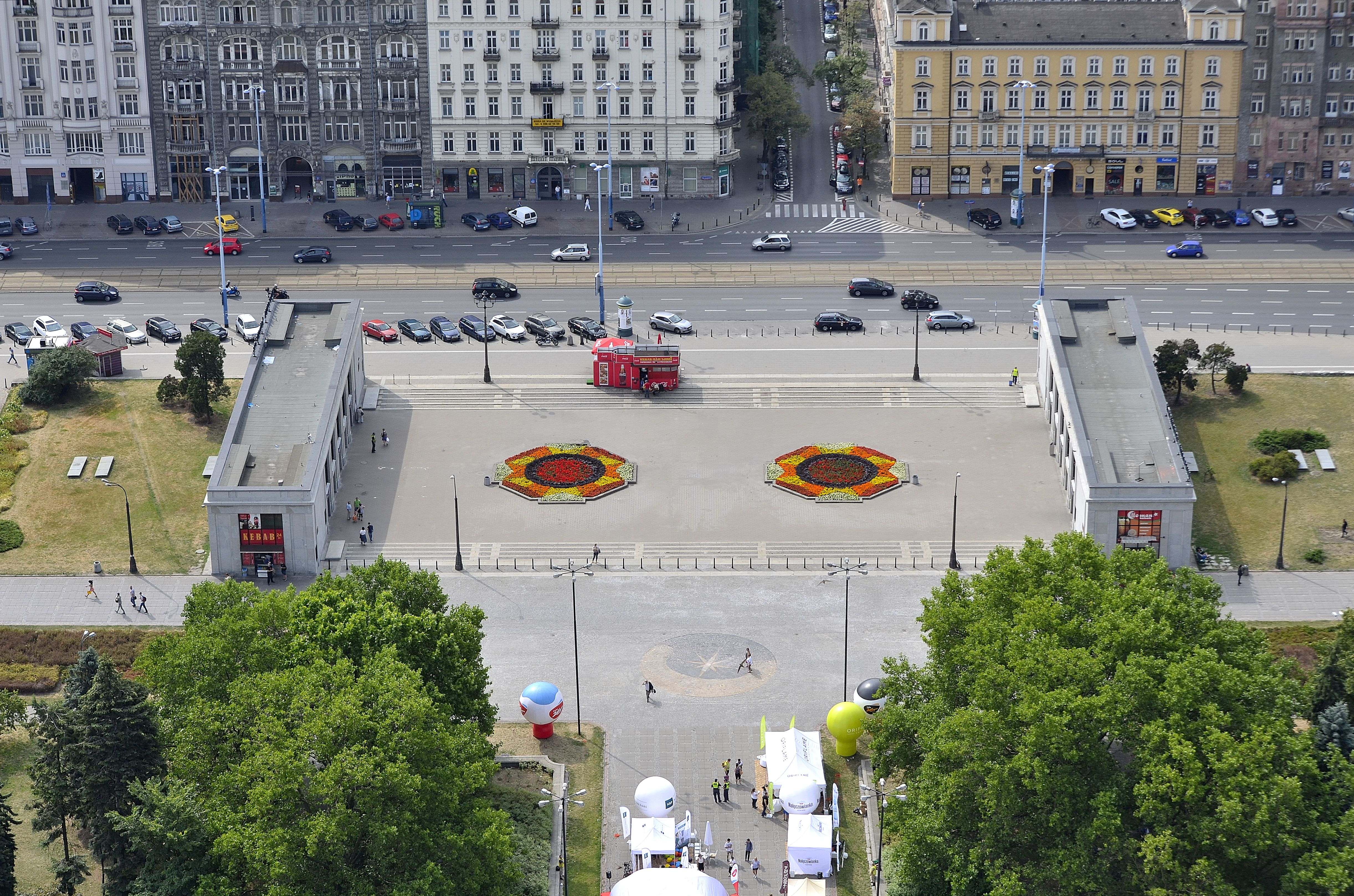 Warszawa Śródmieście railway station viewed from the Palace of Culture and Science